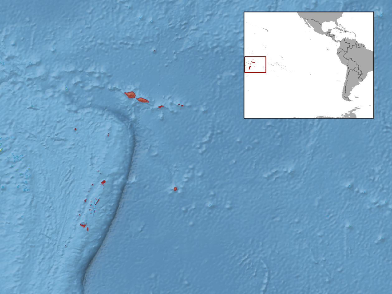 geographic distribution of Emoia lawesi